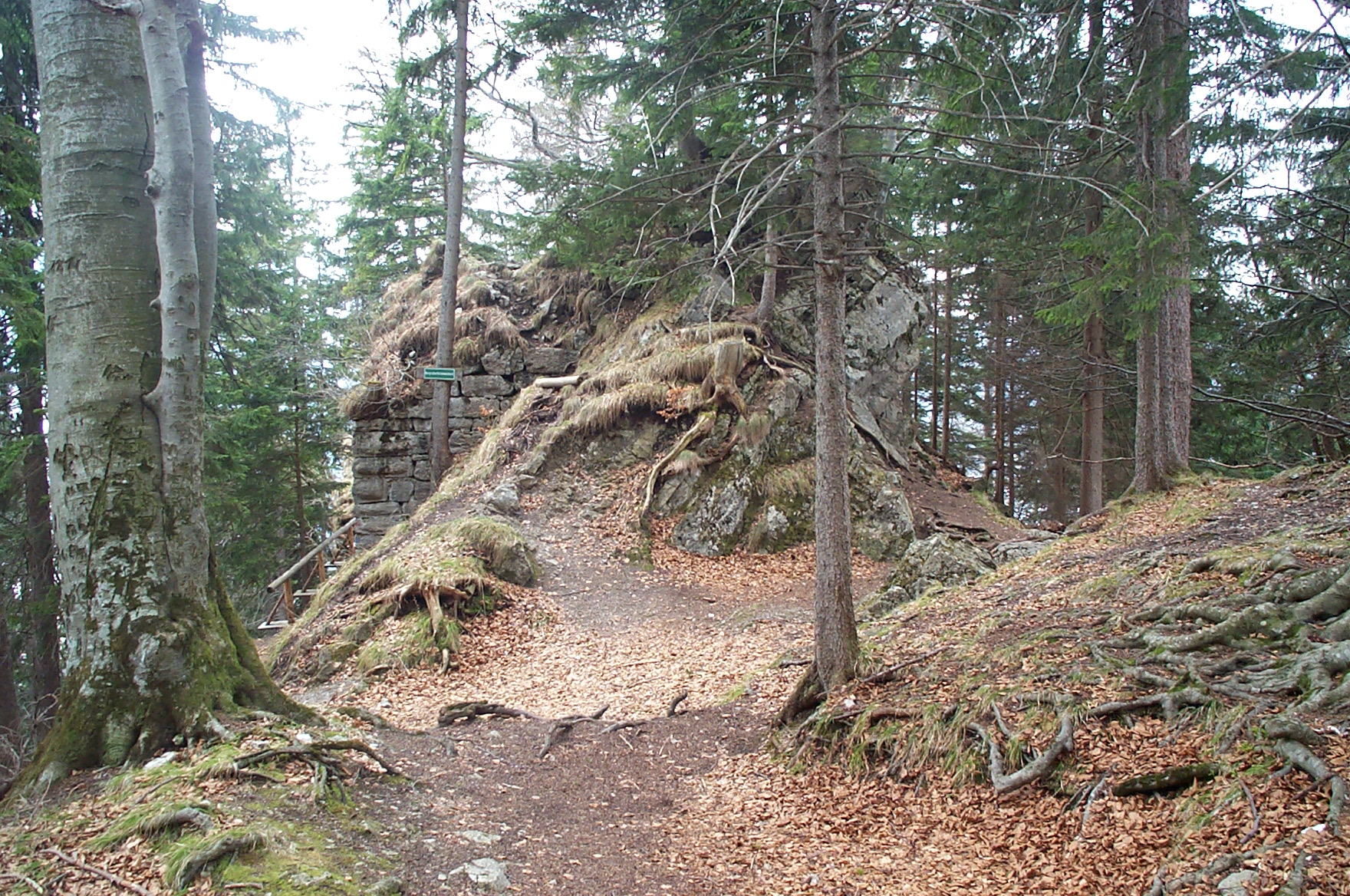 There isn't so much left of the castle, after all.